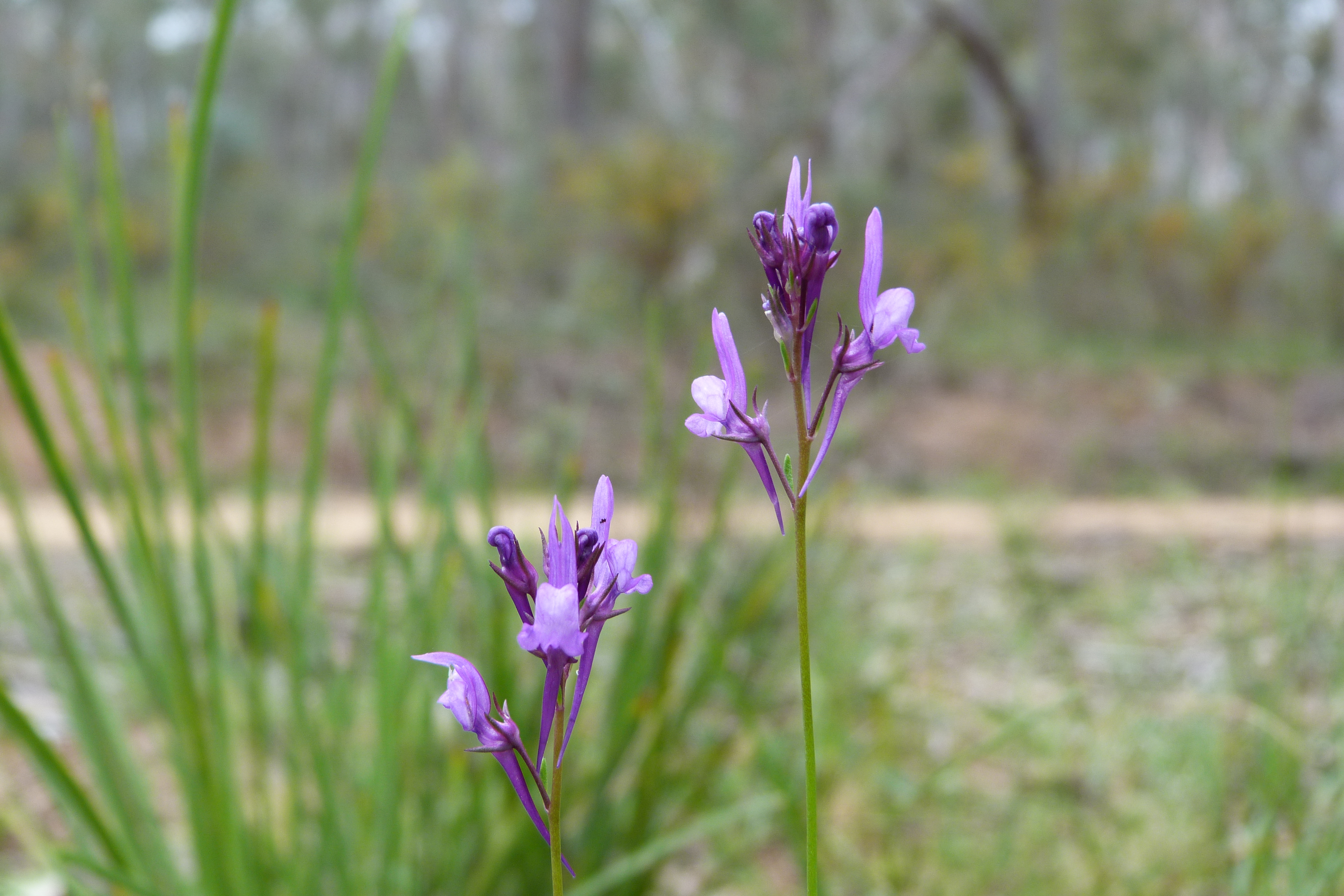 Linaria pelisseriana (L.) Mill., Black Mountain, Canberra, ACT, 27 October 2010